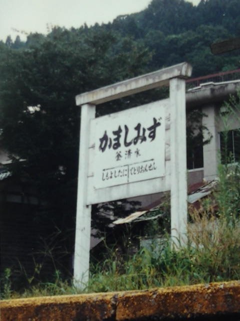 Hokutetsu Kinmei line Kamashimizu station name